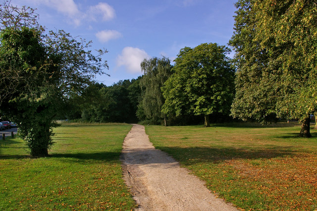 Chislehurst Common A path across Chislehurst Common, with Church Row on the left.